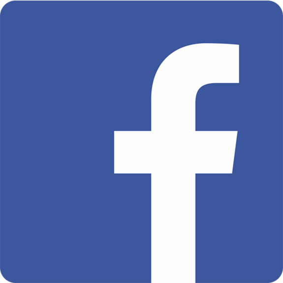 Facebook logo.